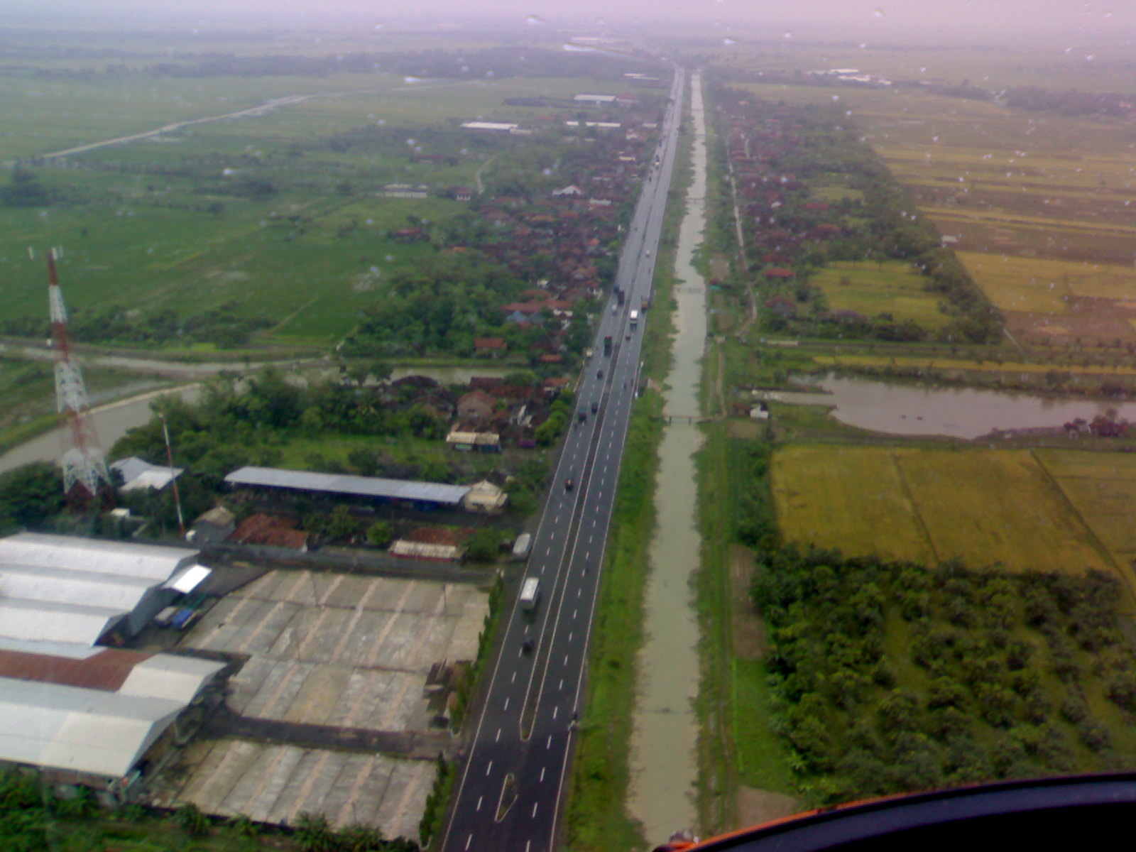 The Java northcoast toll road, a part of whole java north coast road network